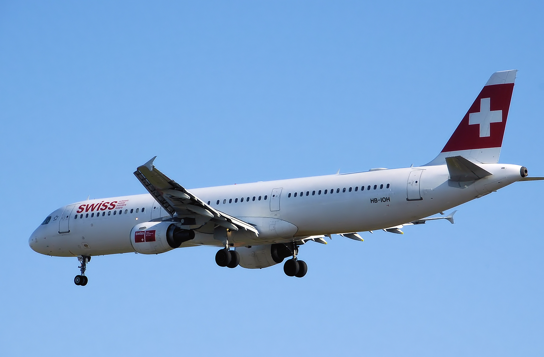 Swiss International Air Lines Airbus A321-100 (HB-IOH) landing at from London Heathrow Airport.